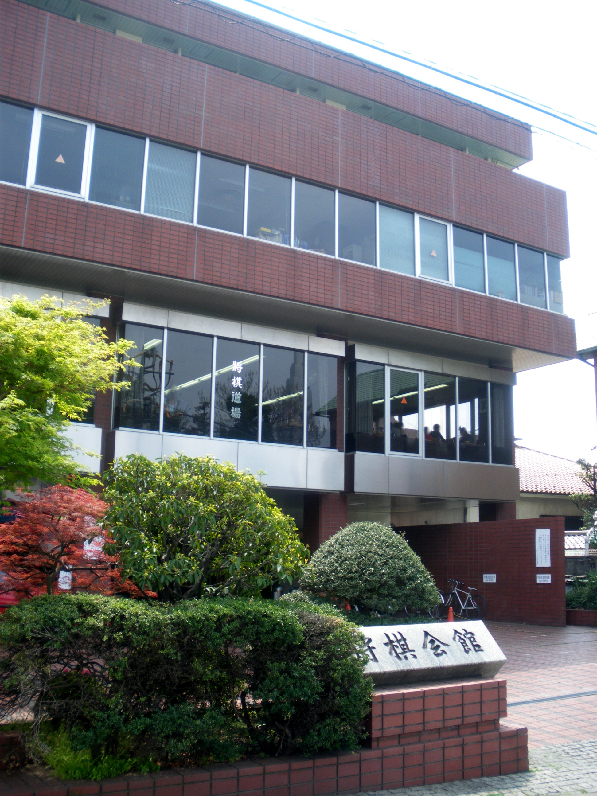 Shogi Kaikan (Sendagaya, Shibuya, Tokyo)The headquarters building for the Japan Shoji Association photographed in 2009.